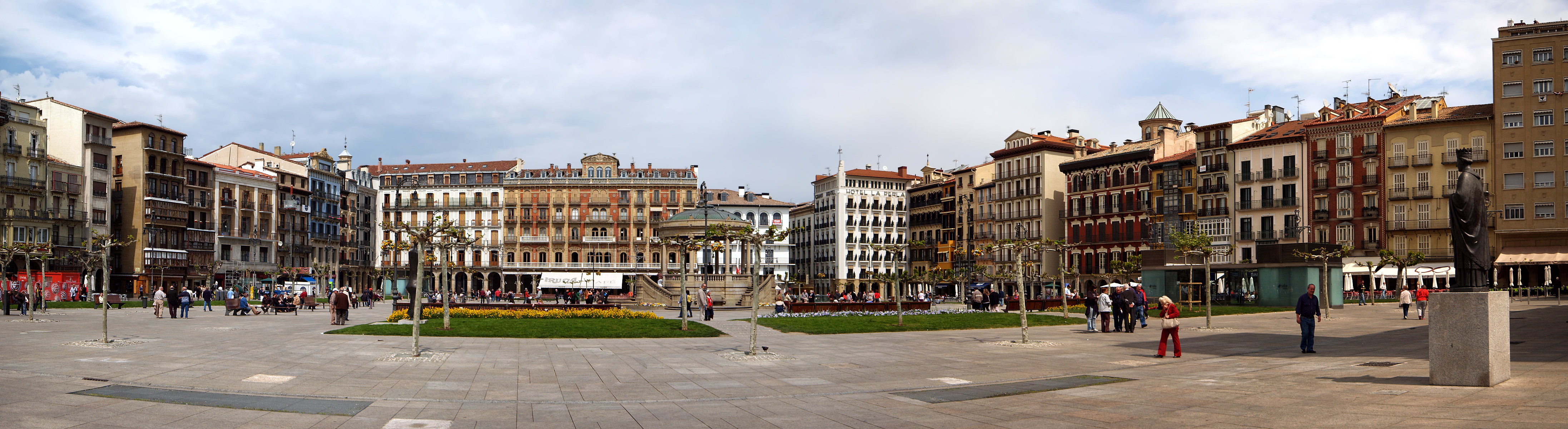 Plaza de Castillo, Pamplona